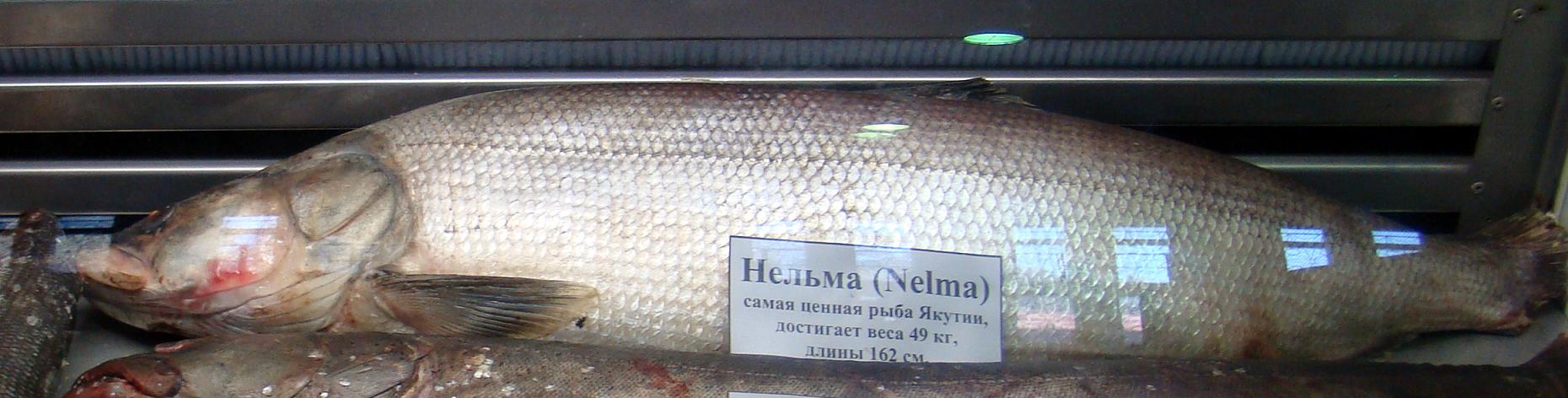 Stenodus leucichthys nelma. Caption in image: "Nel'ma. The most valuable fish in Yakutia, it reaches a weight of 49 kg and a length of 162 cm."